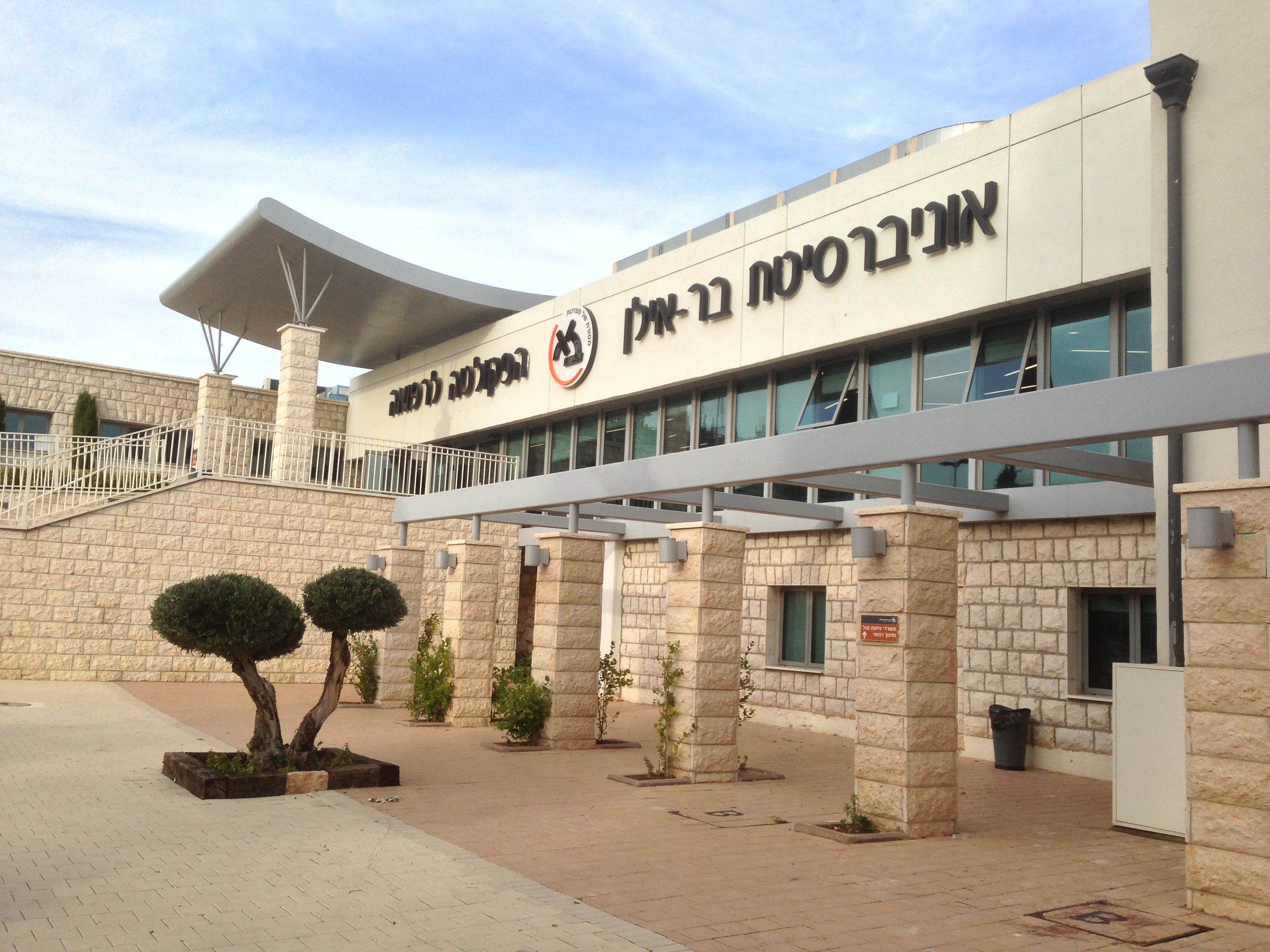 Bar-Ilan Faculty of Medicine in the Galilee, Safed